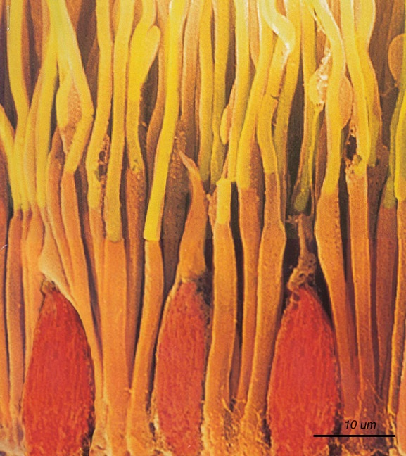 Scanning electron micrograph of the rods and cones of the primate retina